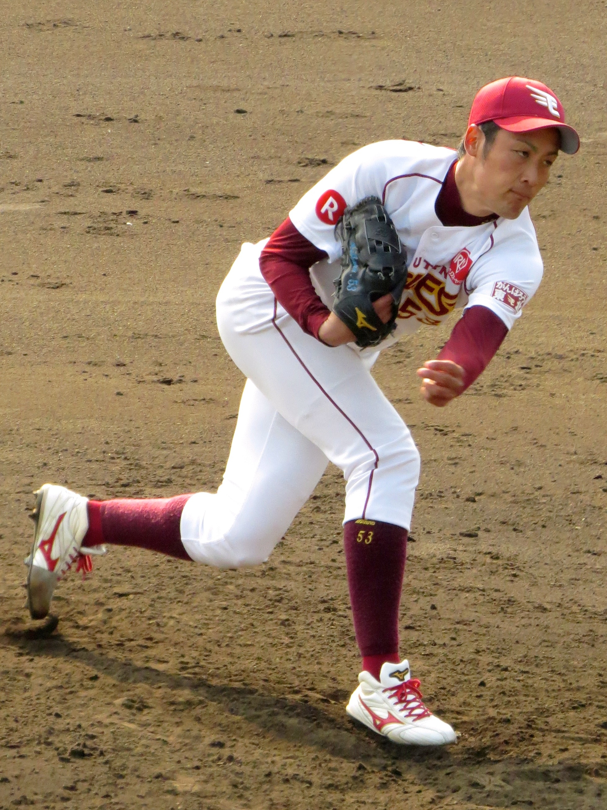 Kazutomo Aihara, pitcher of the Tohoku Rakuten Golden Eagles, at Saitama Municipal Urawa Baseball Stadium